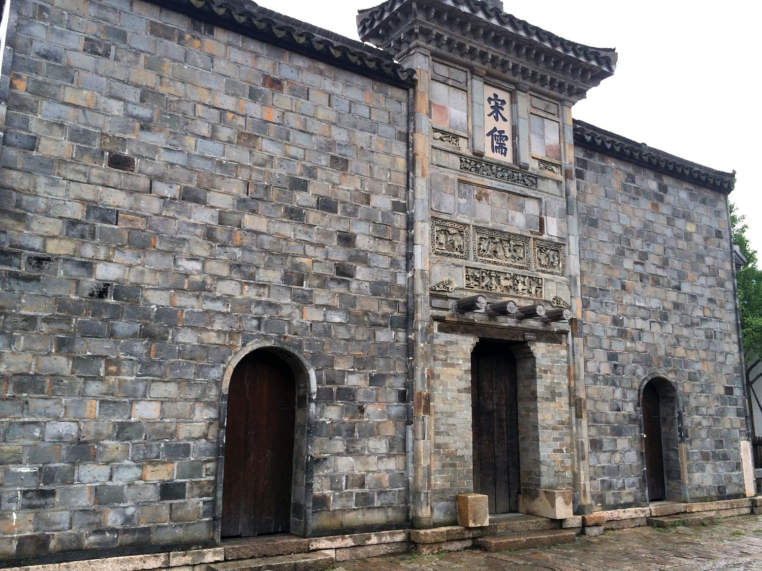 An ancient Huizhou style architecture, It served as the Huizhou-merchants' guild.